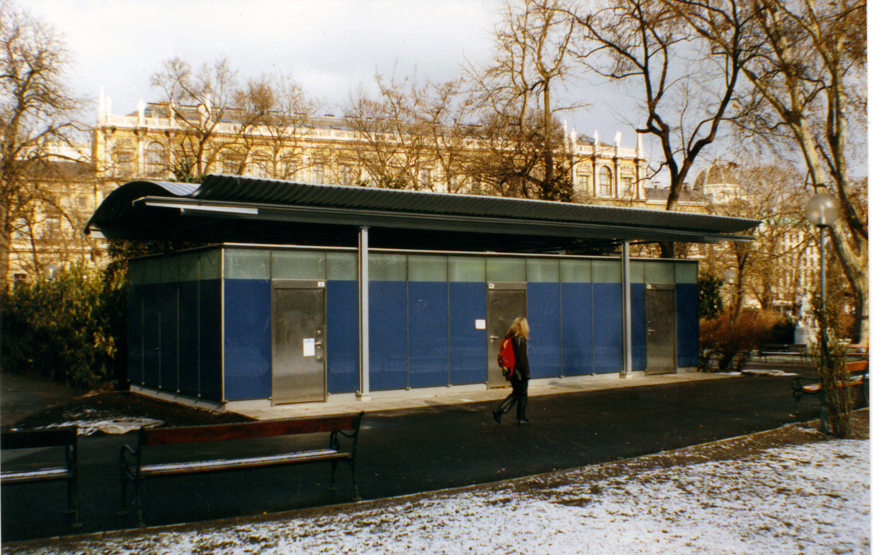 Public toilet in Rathauspark, Vienna